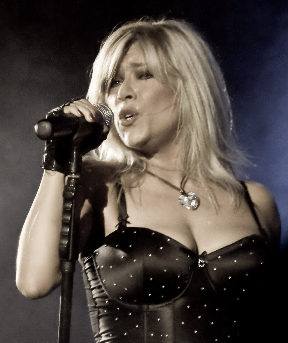 Samantha Fox live in Rescaldina, Lombardy, Italy